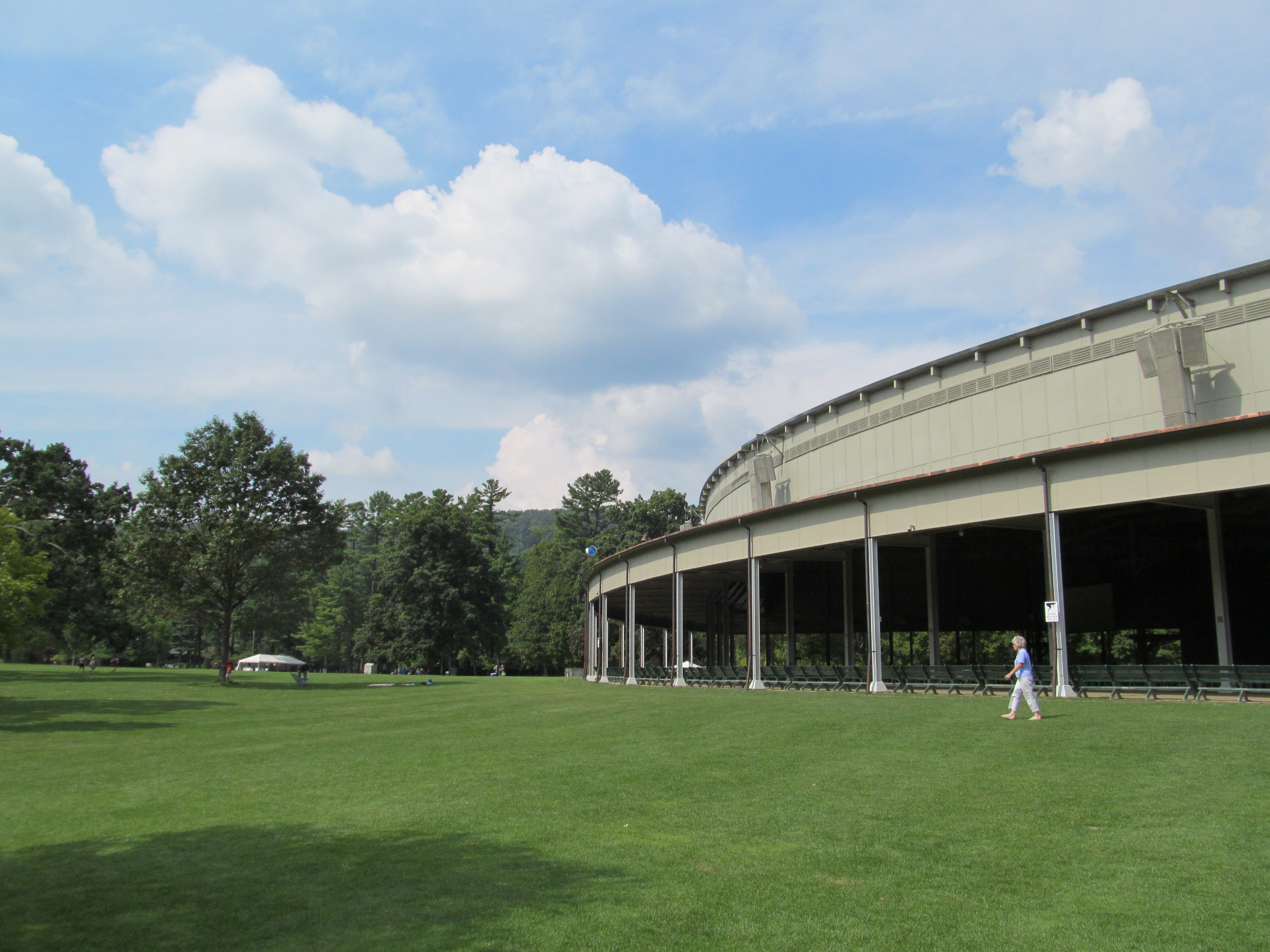 The Shed, Lenox Massachusetts